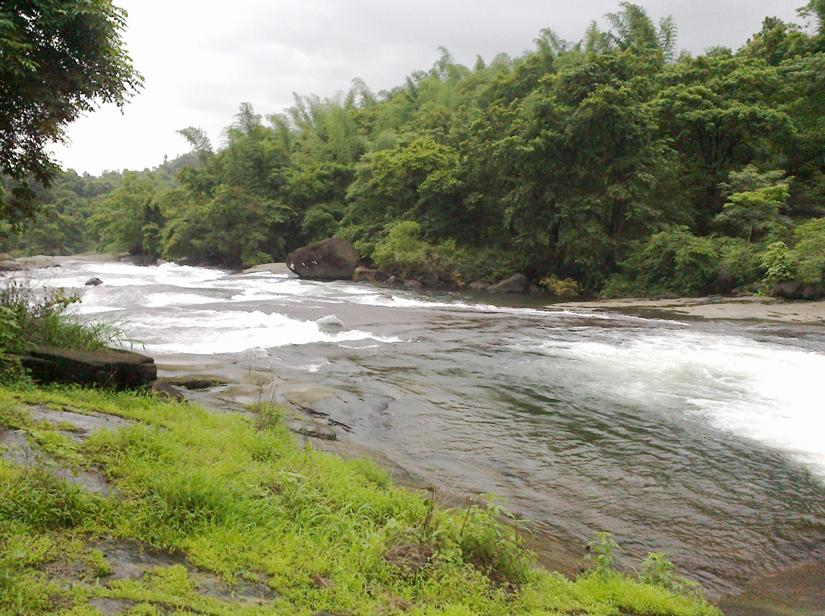 Adian Para Water Fall